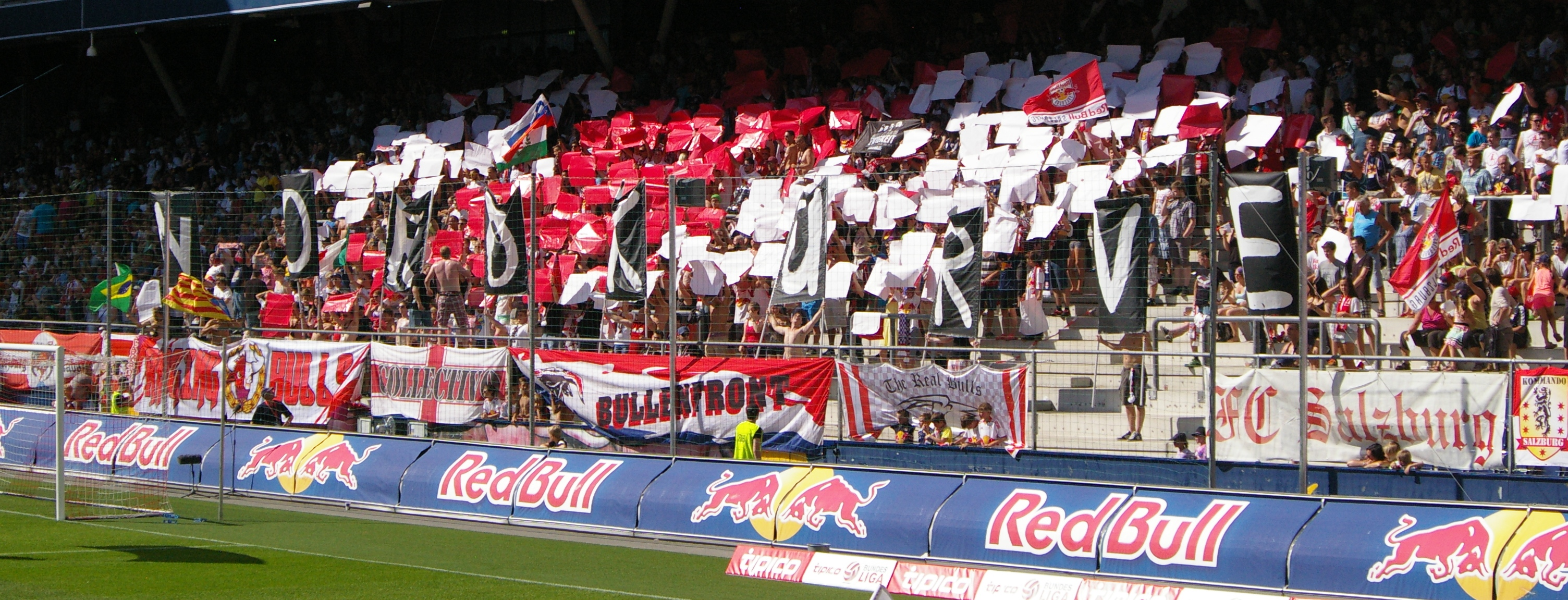 first match of the 2014/15 season Austrian Bundesliga